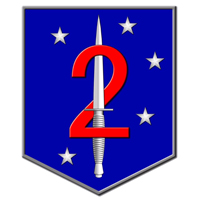 Logo for the 2nd Marine Special Operations Battalion